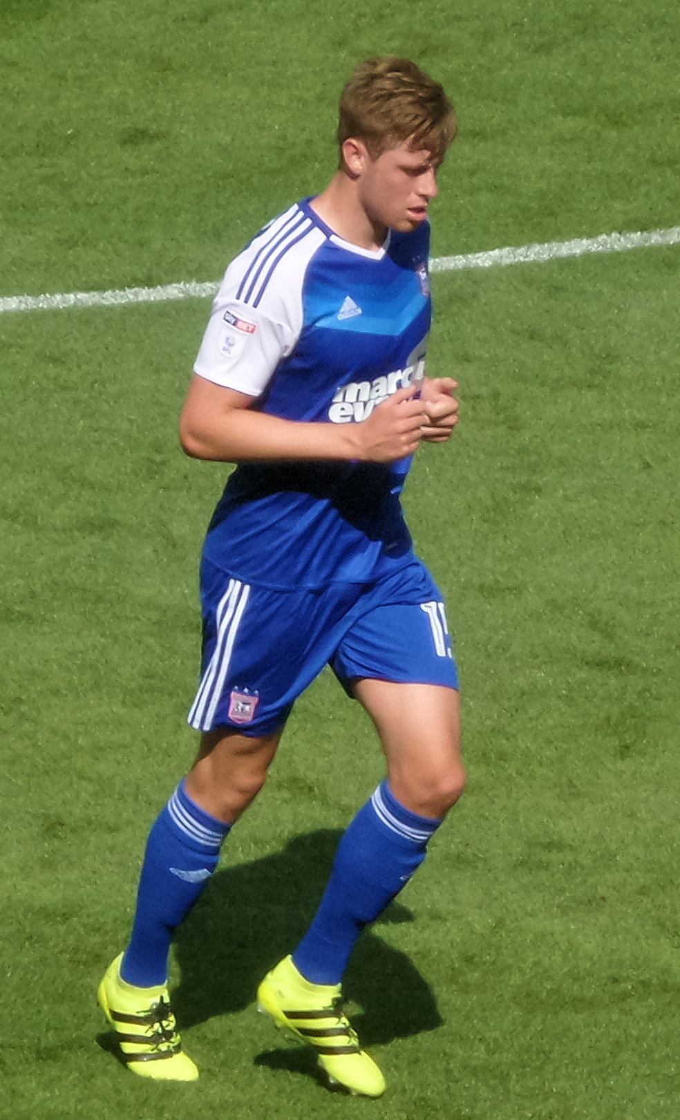 Adam Webster on his Ipswich Town debut against Barnsley on 6 August 2016